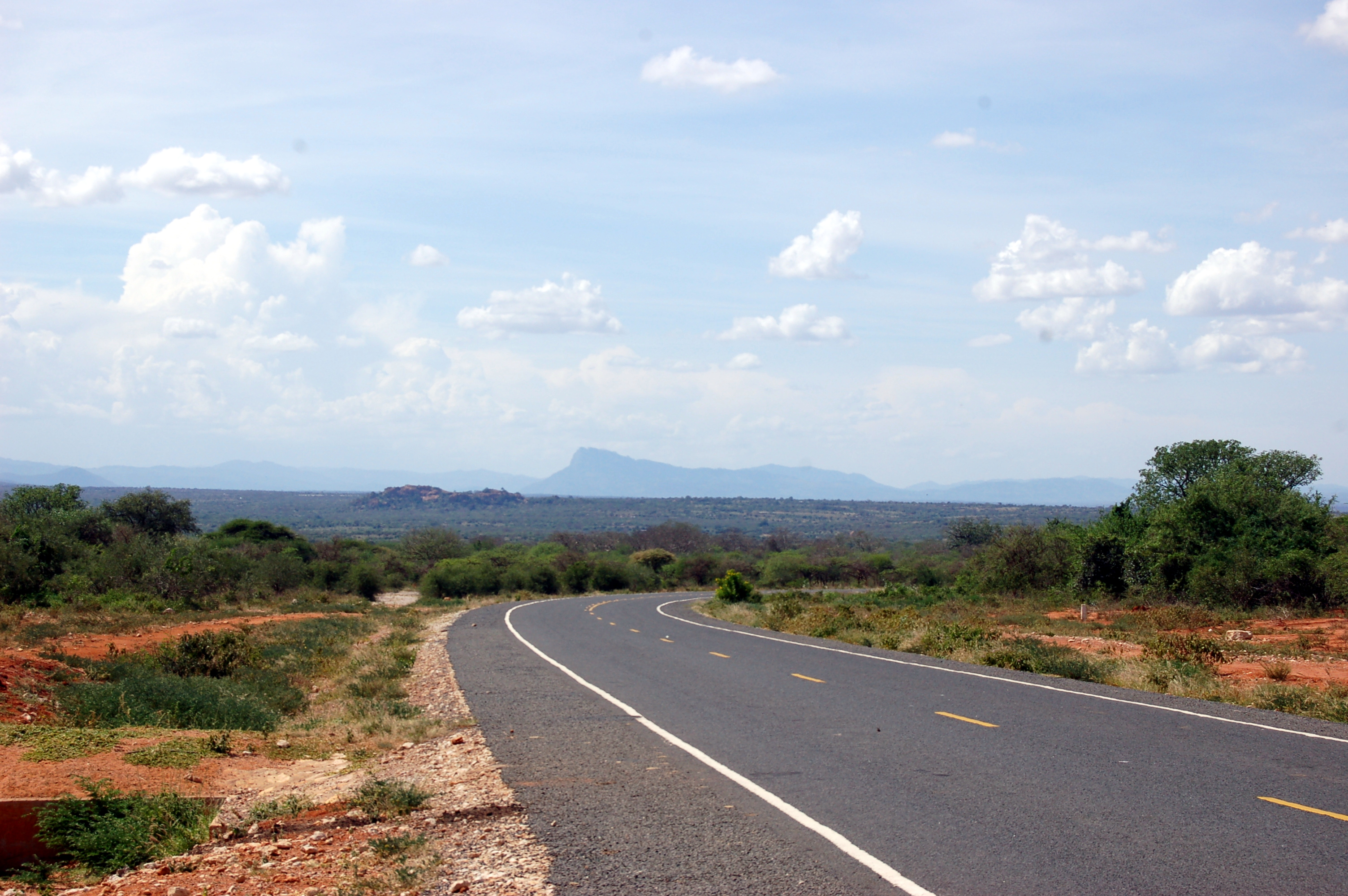 A109 road (Nairobi–Mombasa) in Machakos County, Kenya